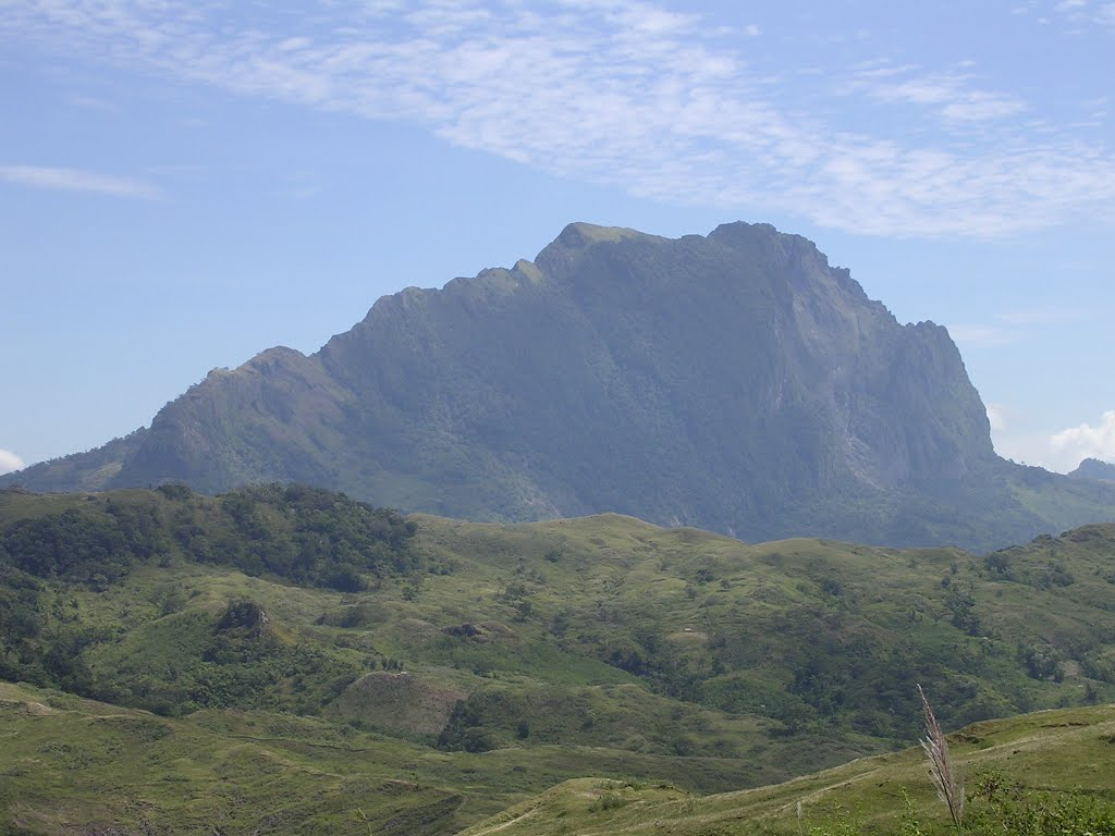 The steep, knife-edged Mt Loelaco from the Maliana-Suai road